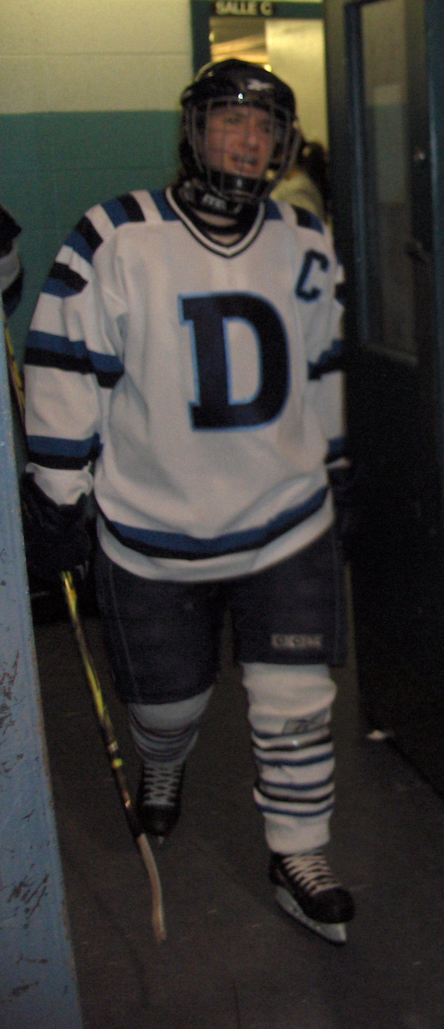 Dawson Blues uniform , Dawson College Blues women's ice hockey team in the Ligue de hockey féminin collégial AA